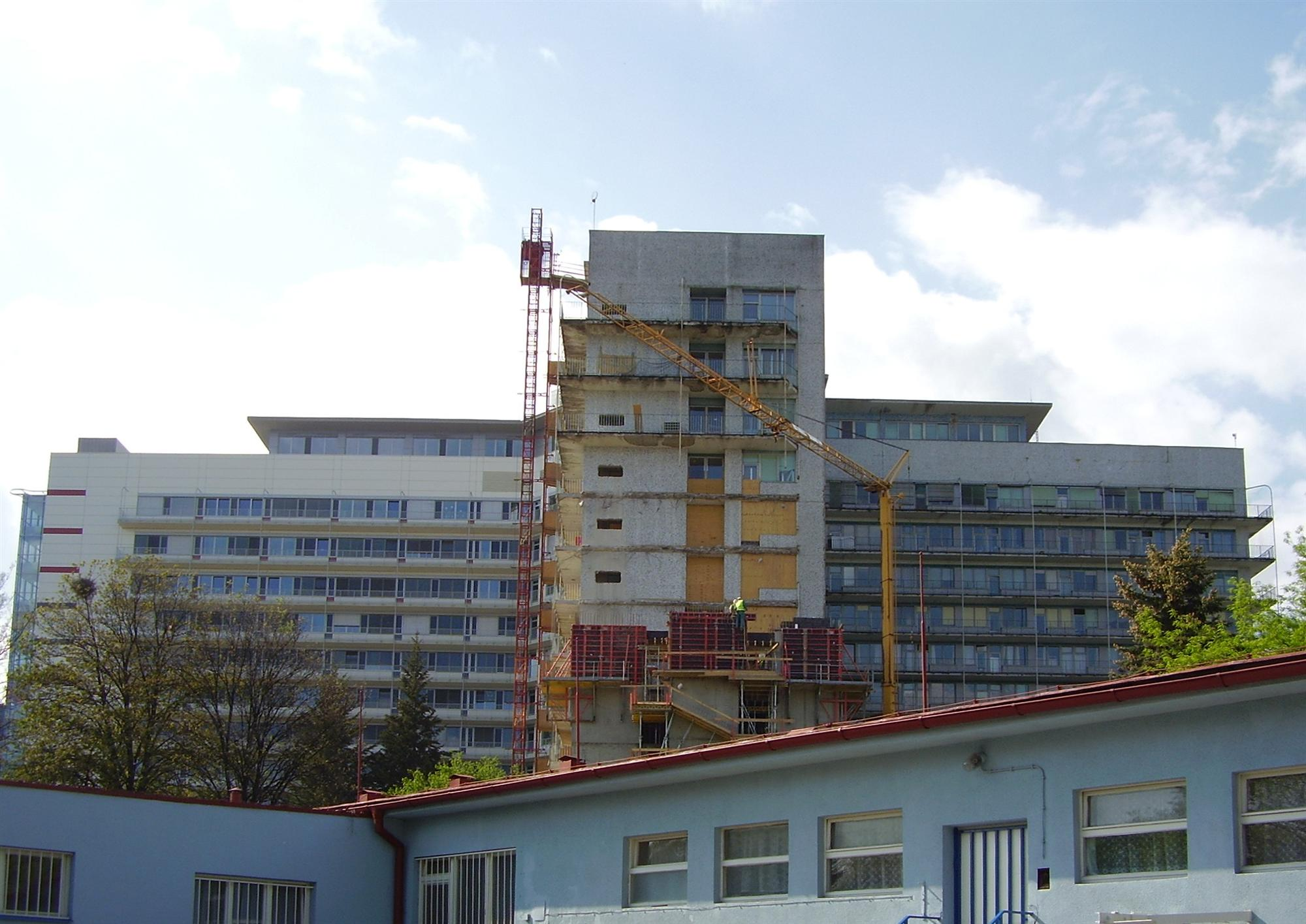 Reconstruction of Children's part Motol hospital